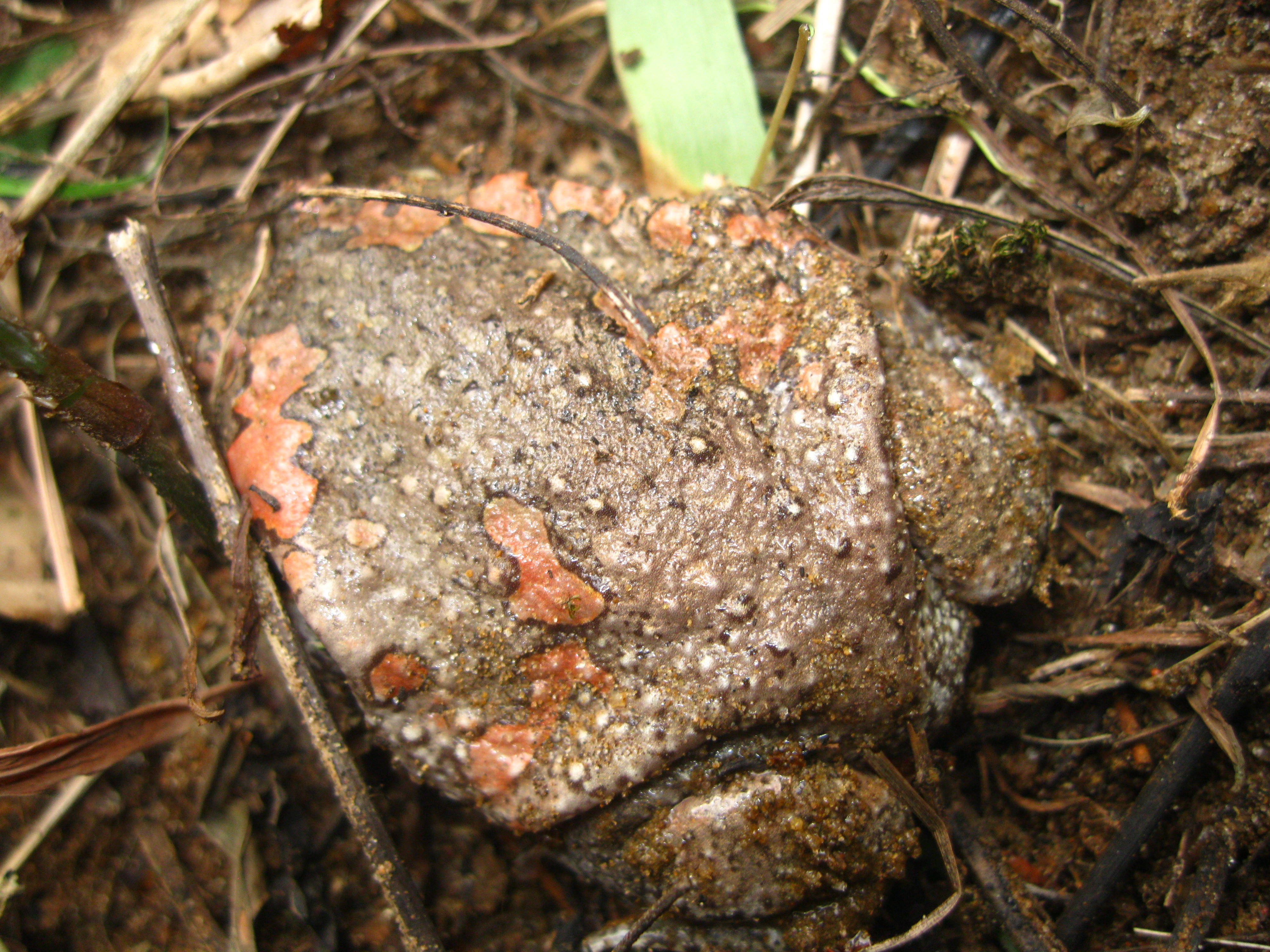 Kaloula taprobanica